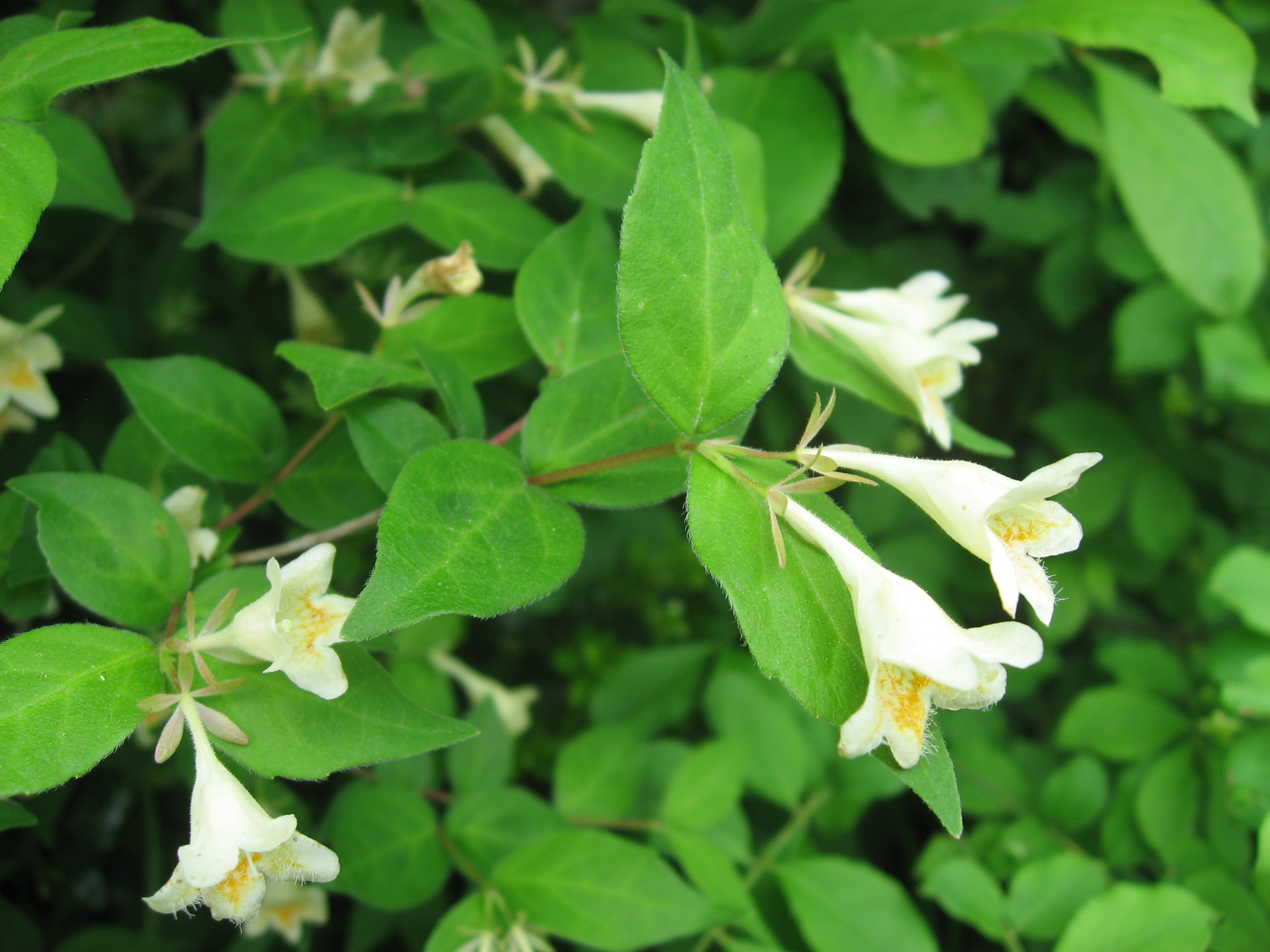 Abelia spathulata, Aizu area, Fukushima pref., Japan